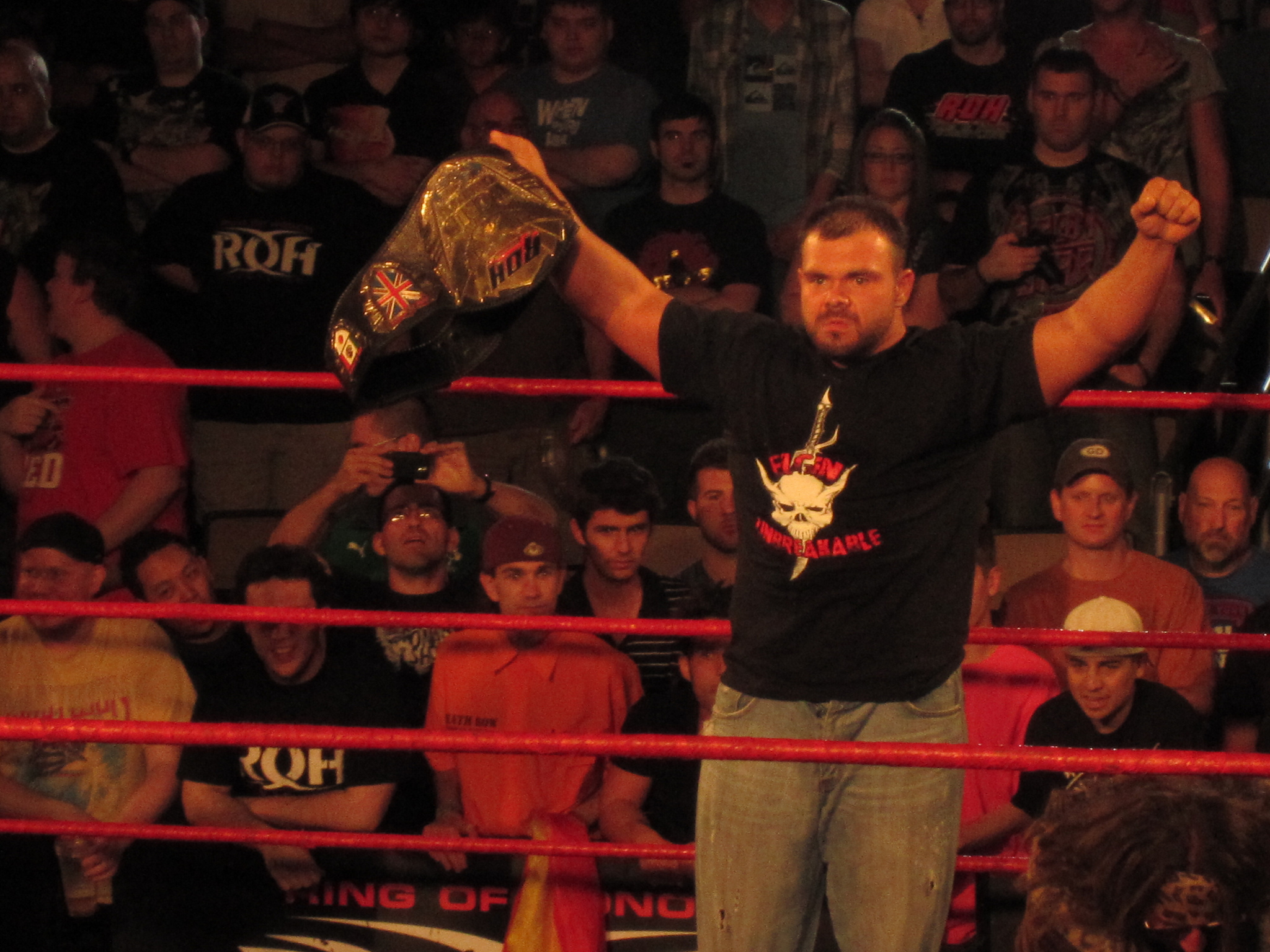 Michael Elgin after the match beatdown